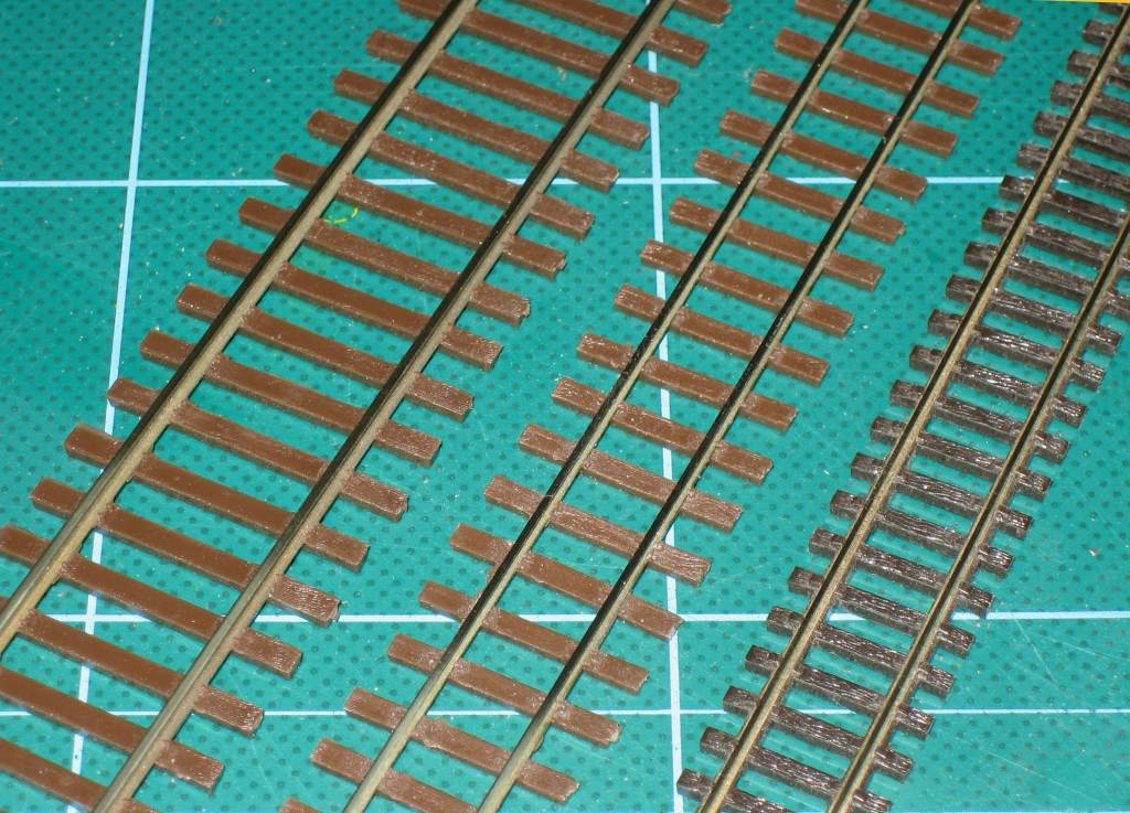 HO HOn30 N model railroad track comparison